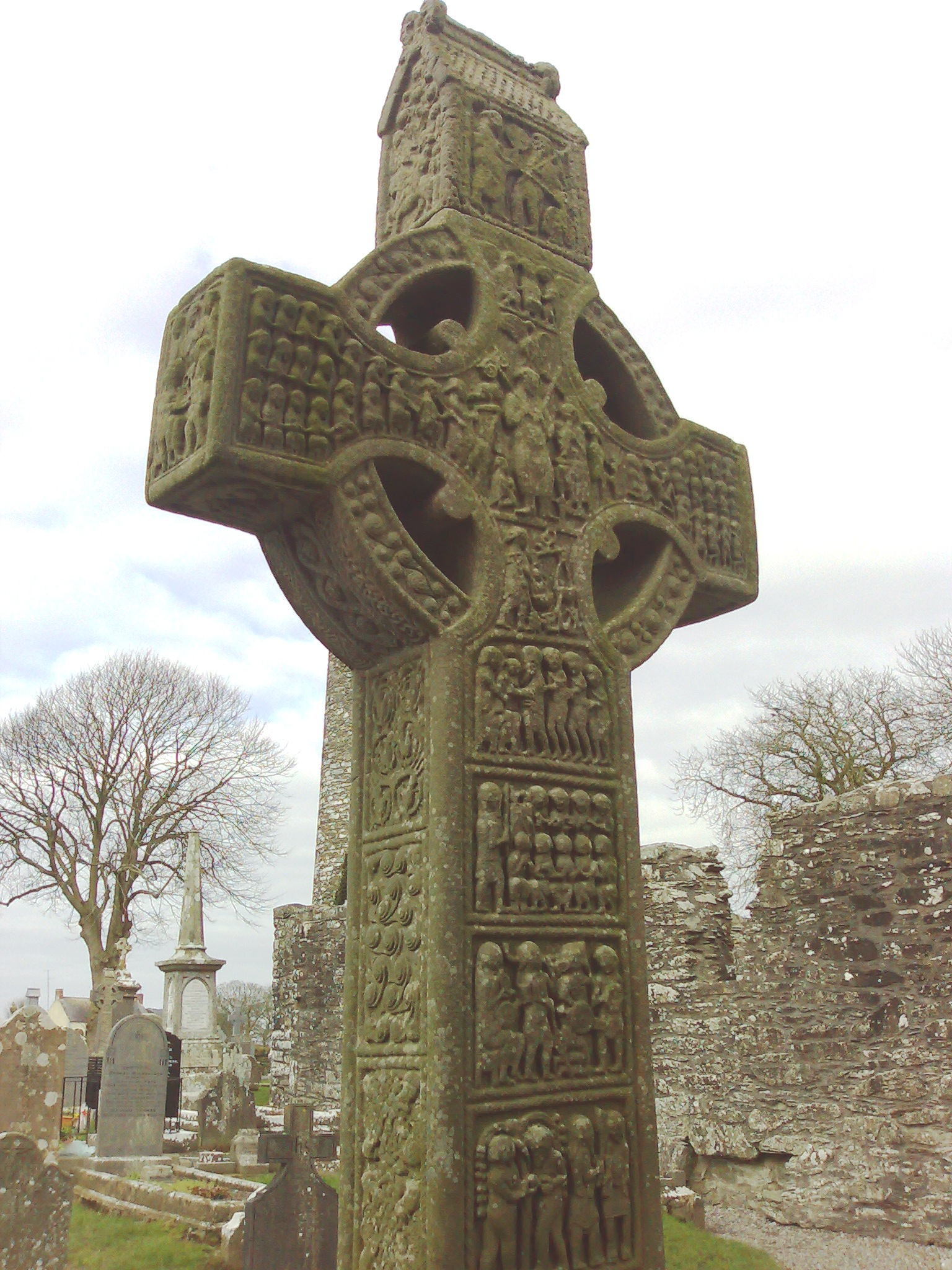 Photo of Muiredach's High Cross, located at Monasterboice, County Louth, in the Republic of Ireland.